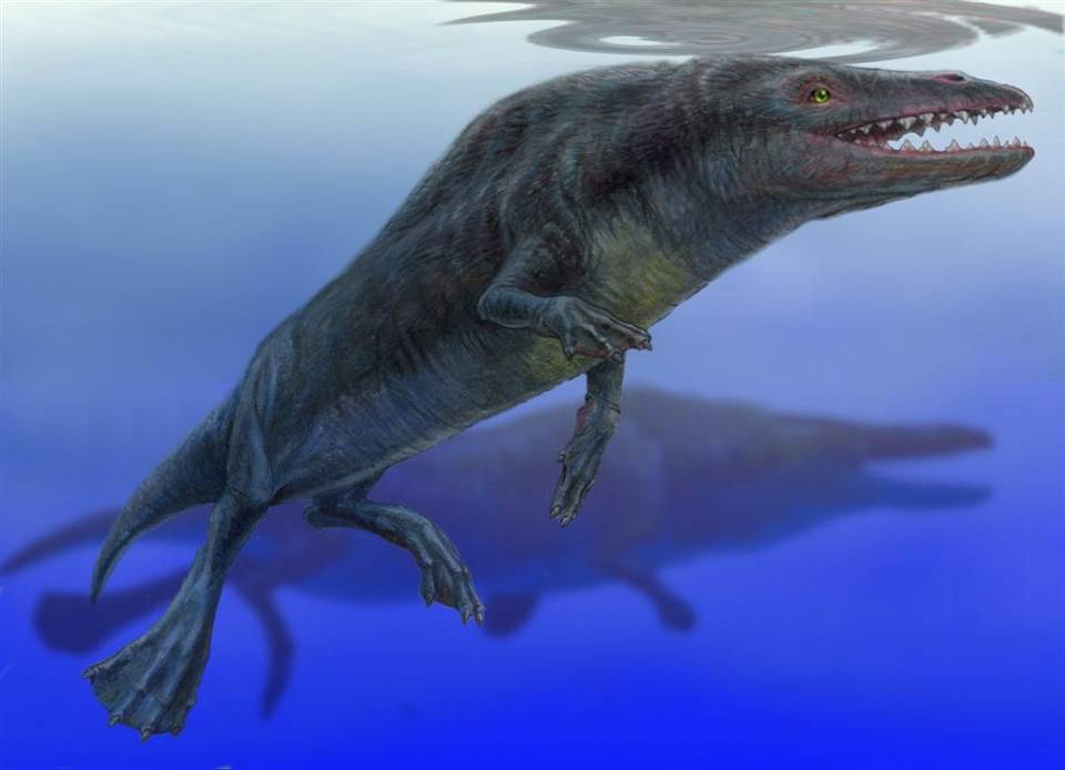 Rodhocetus.